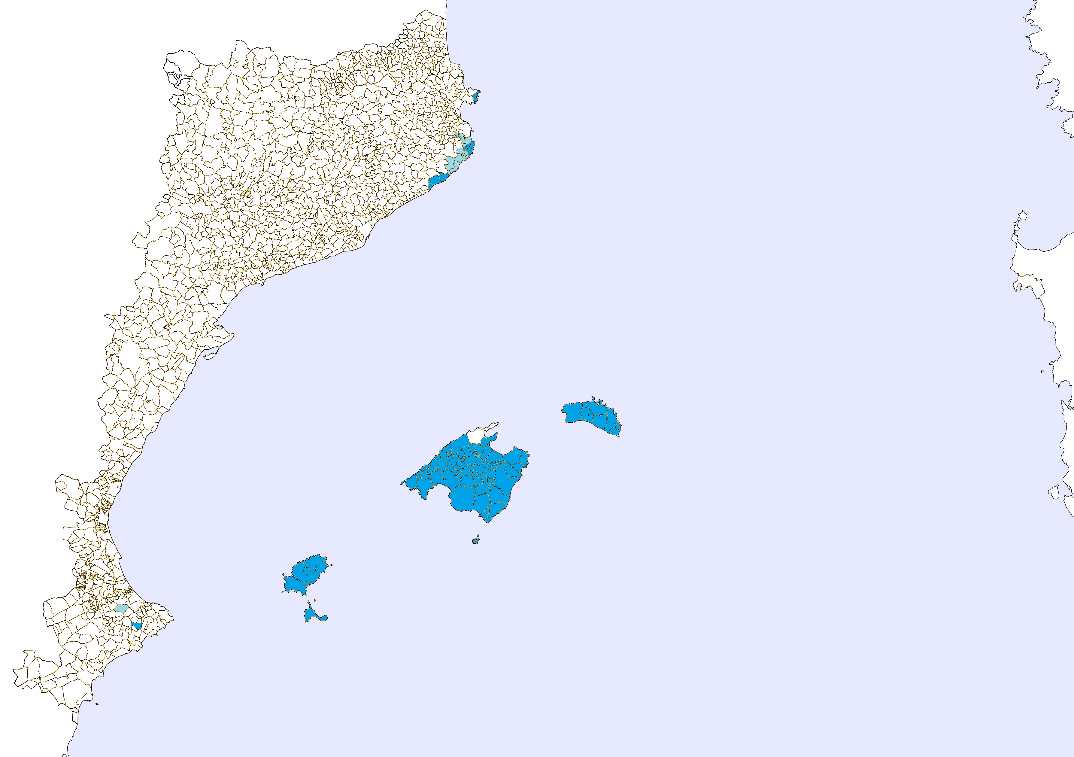 Map of the extent of the "article salat": Nowadays Extinct in the 20th century Source of the extent in Costa Brava: [2]